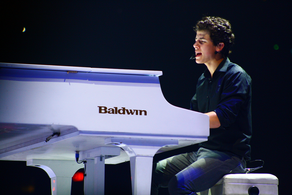 Nick Jonas in Illinois 2009.